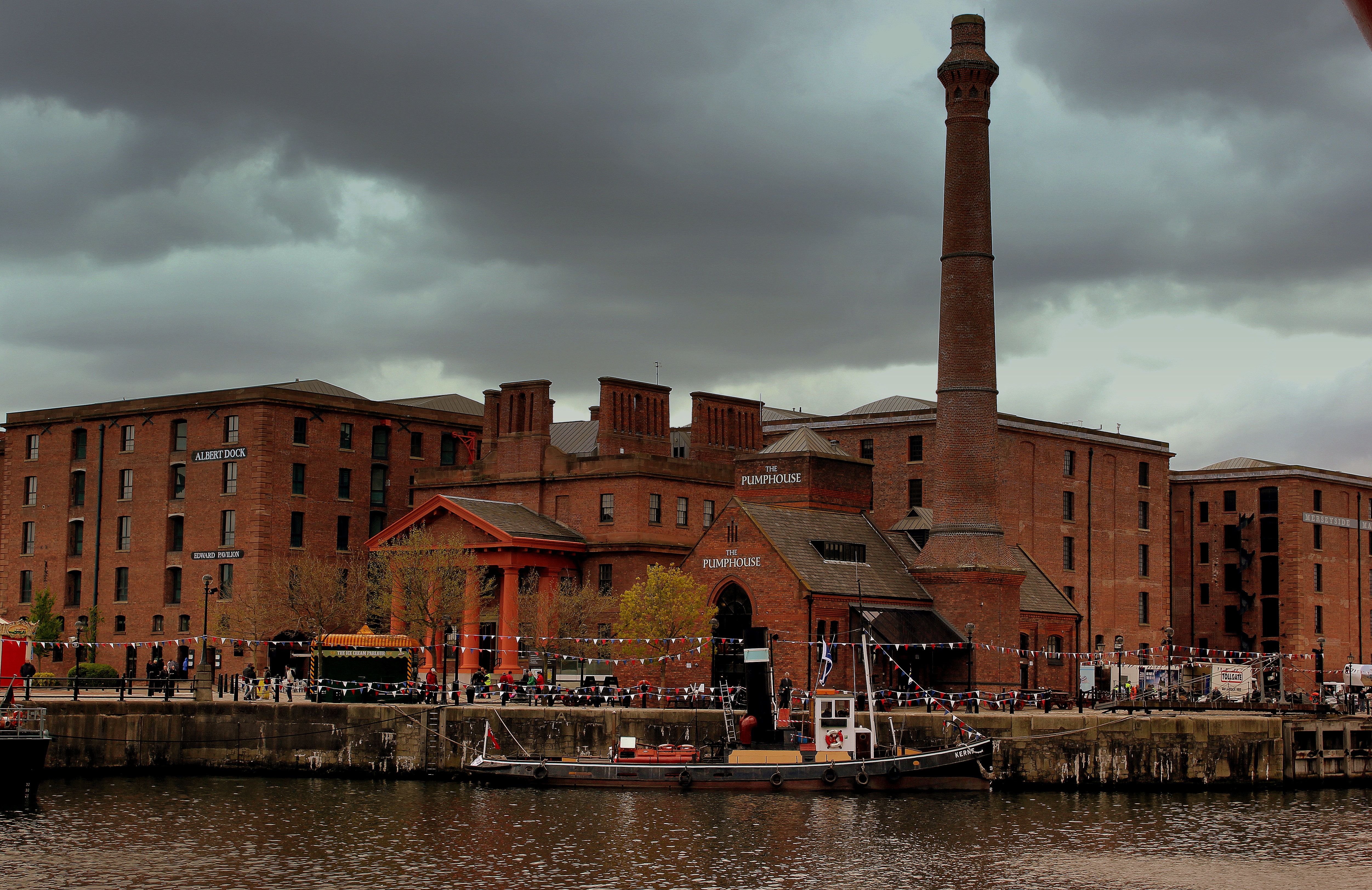 ALBERT DOCK AND PUMP HOUSE PUB LIVERPOOL MAY 2013